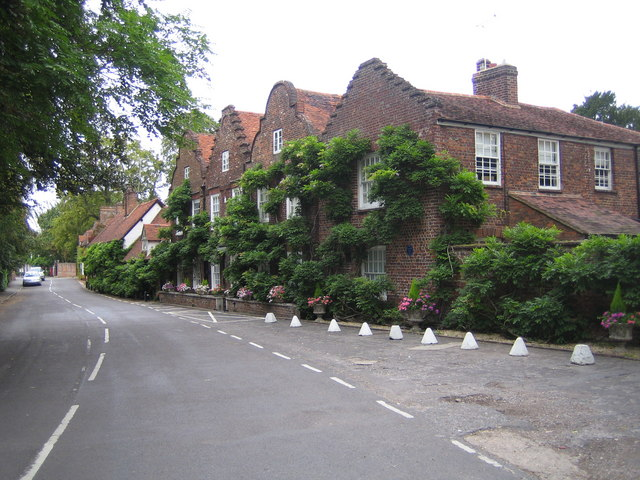 Denham: Village Road. The house on the right was the home of the actor Sir John Mills (1908-2005), and a blue plaque, just visible on the front wall, records the fact.